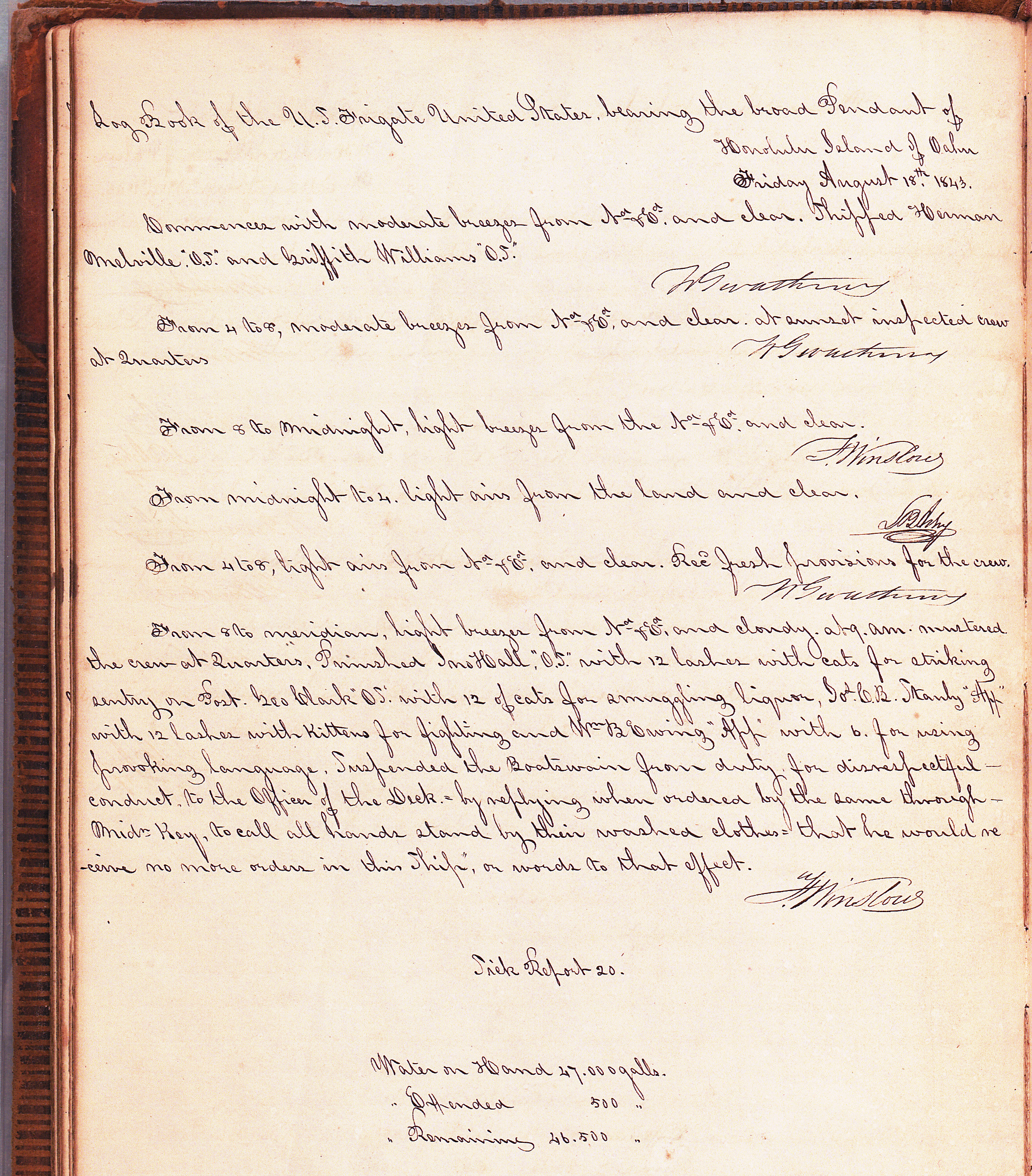 Log of the USS United States dated August 18 1843. Log records entry of author Herman Melville O. S. as crew member. Also records ship company muster for punishment and description of seamen to be flogged.